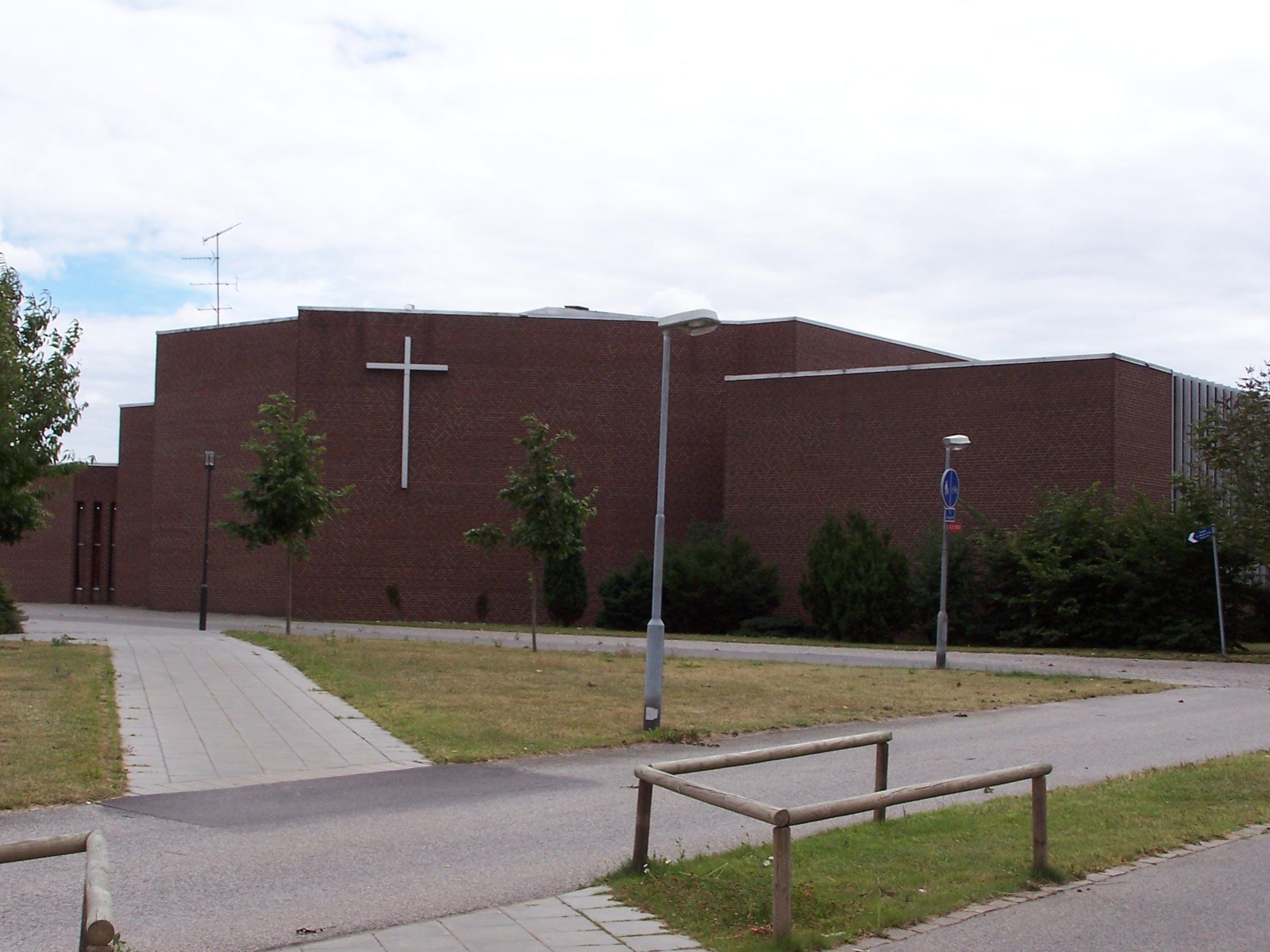 Backside of Sankt Mikael church in Malmö (seen from north)